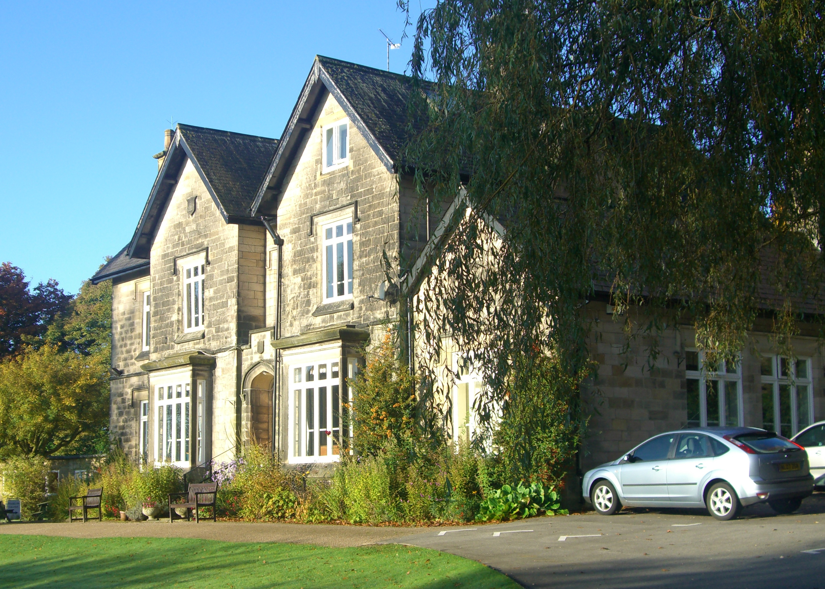 Whirlow Grange in the Sheffield suburb of Whirlow, England